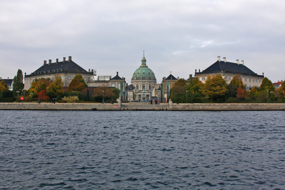 Amalienborg, the Marble Church and Amaliehaven in autumn colours in Copenhagen, Denmark